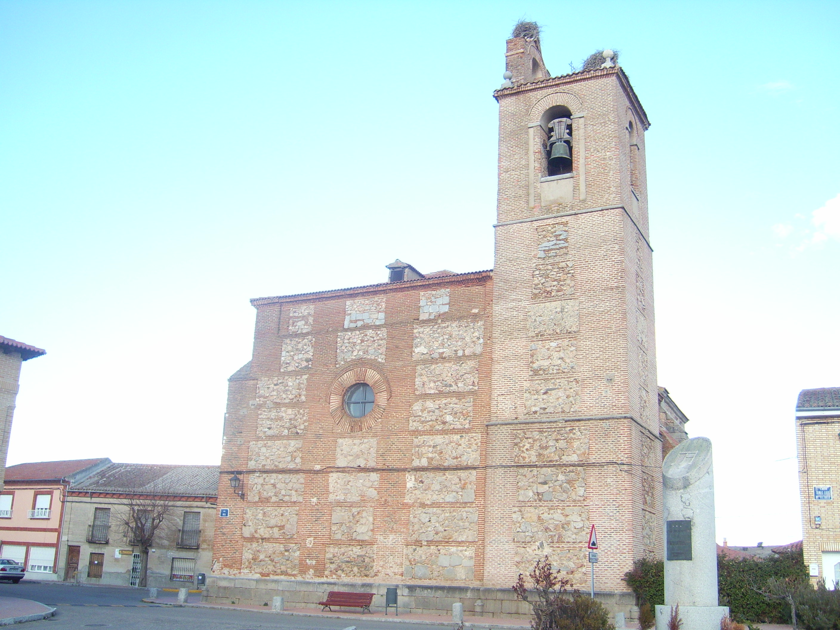 Church of Sanchidrián (Ávila)